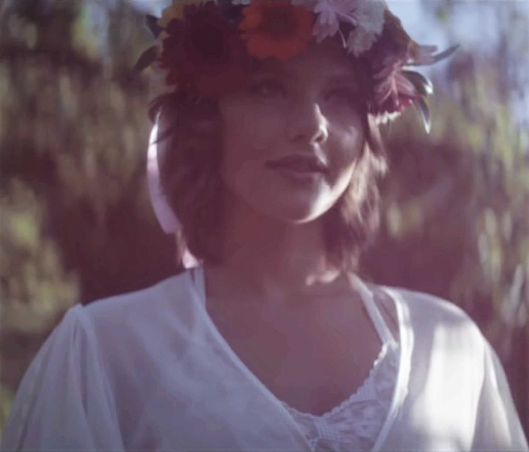 A Tribute to Elly Mayday (A Perfect 14) Ashley Shandrel Luther April 15, 1988-March 1, 2019 Filmed For the Feature Documentary A Perfect 14 Starring Elly Mayday Written & Directed by Giovanna Morales Vargas Produced & Edited by James Earl O’Brien Segment Credits: Camera: Rob Bannister Color: Aerlan Barrett Hair & Makeup: Elizabeth McLeod Music: Dissociation (Most Sad Piano Music) - NAOYA.S